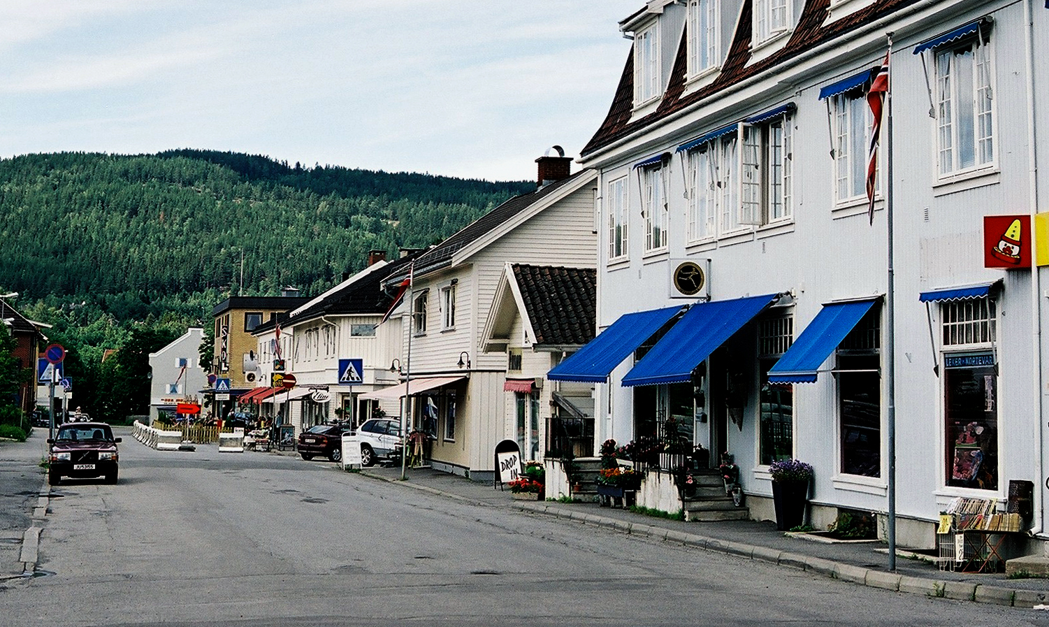 Storgata, Jevnaker, Norway.